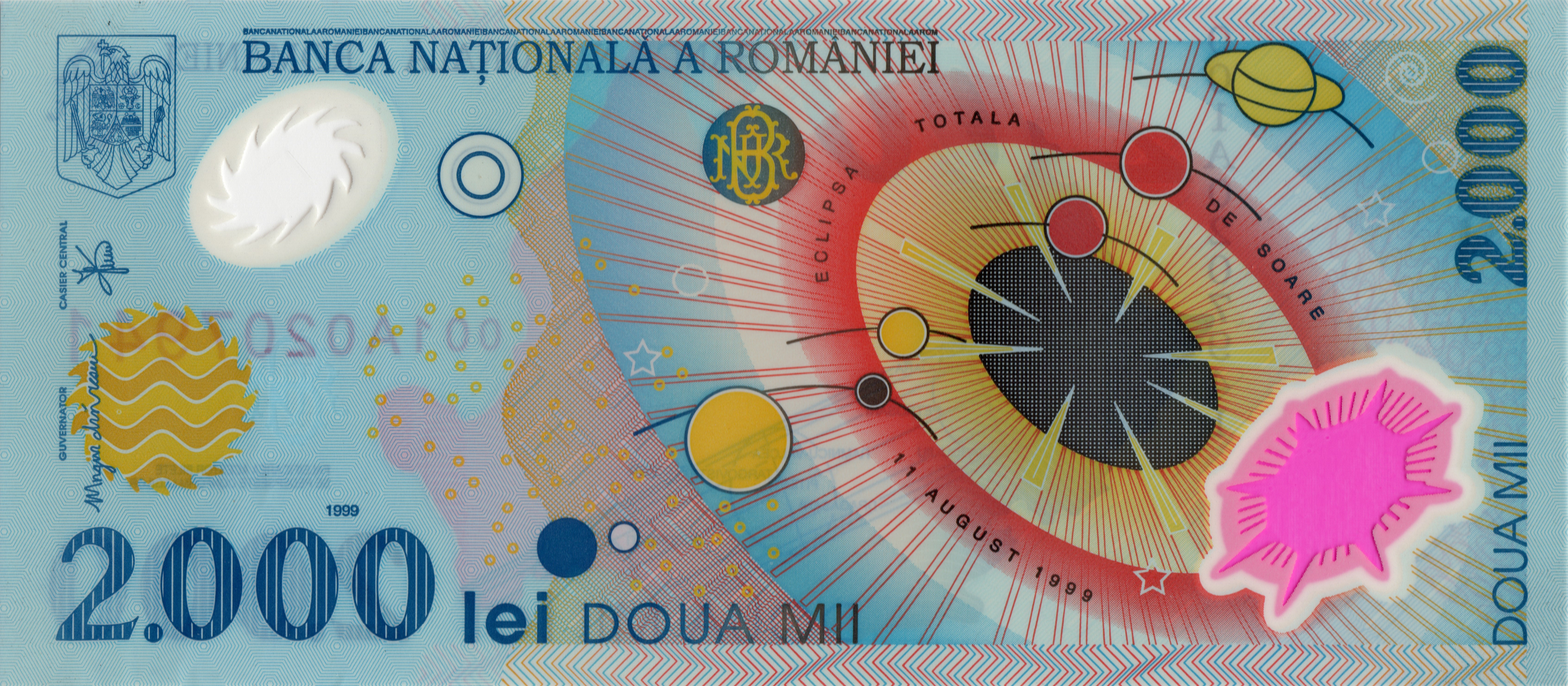 Obverse of a 1999-series Romanian 2000 lei banknote